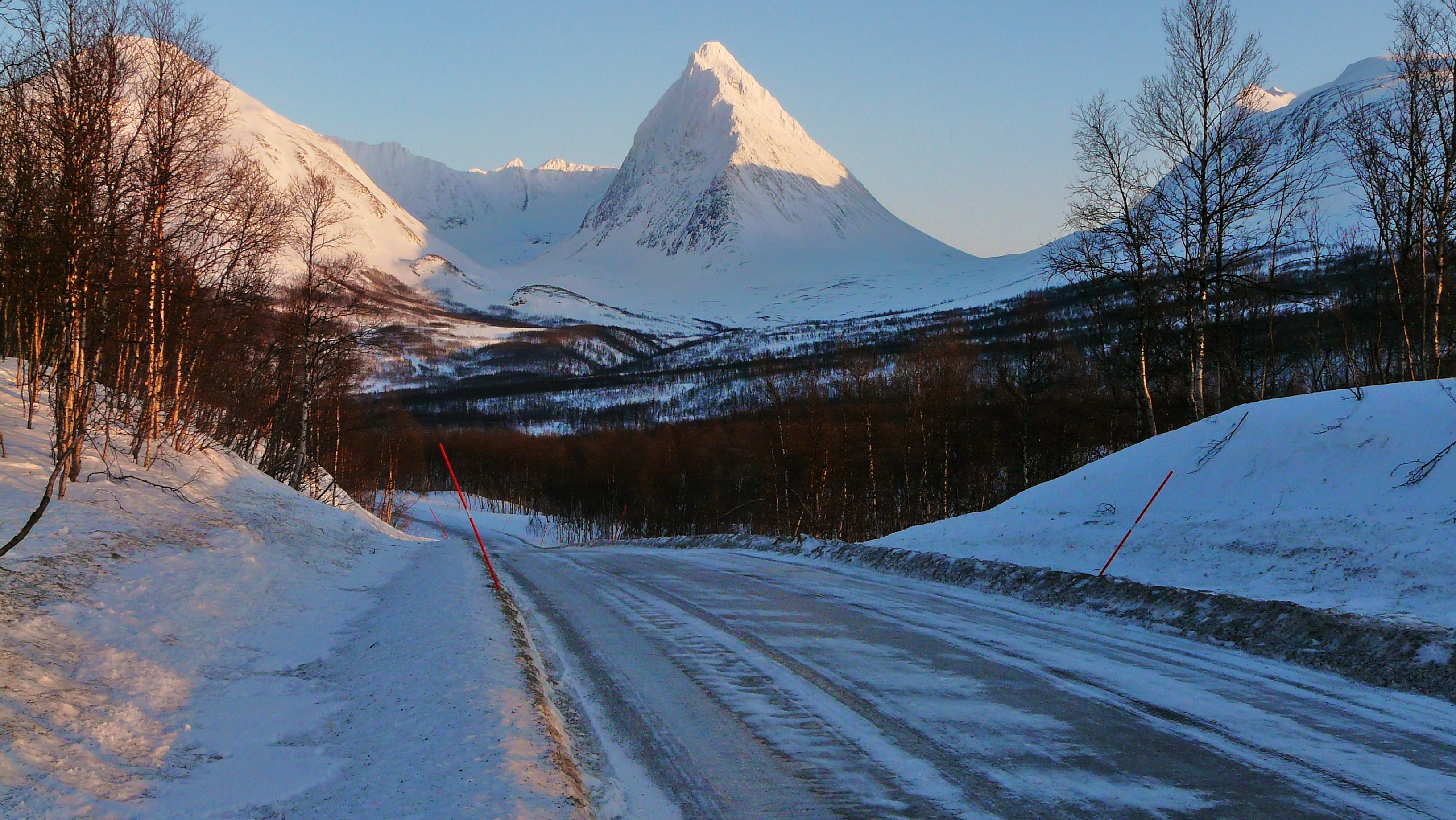 A view to the east from the Fylkesvei 292 road in 2009 February. Storelvskardet, Piggtinden and Piggtindskardet are visible ahead.